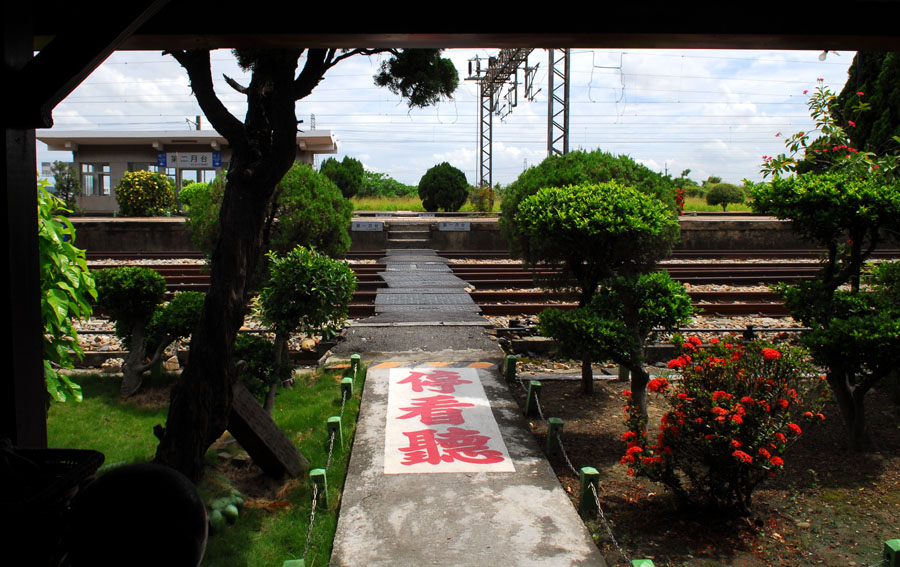 JhuiFen Station is a local train station of Taiwan's Western main rail line. Without facilities such as skybridge or underground pass, passengers have to walk across the rails before entering the platforms.